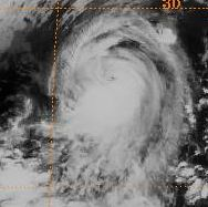 National Climatic Data Center GIBBS satellite archive ftp://eclipse.ncdc.noaa.gov/pub/isccp/b1/.D2790P/images/1982/176/Img-1982-06-25-12-GMS-2-IR.jpg